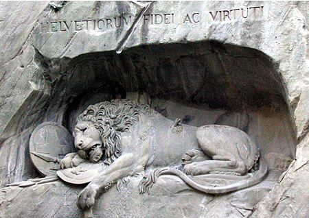 The Lion Monument (Löwendenkmal) in Lucerne, Switzerland. This monument, carved by Danish sculptor Bertel Thorvaldsen in 1819, commemorates the sacrifice of more than six hundred Swiss Guards ("Gardes suisse") who died defending the Tuileries Palace in Paris at the time of the overthrow of the French Monarchy on en:10 August en:1792 during the French Revolution. The Swiss Guards were the most senior of the thirteen regiments of Swiss mercenaries in the Royal Army and had served with distinction since the seventeenth century. The monument portrays a dying lion lying across broken symbols of the French monarchy. Photographed by user Coolcaesar on August 11, en:2005. Category:Images of Switzerland